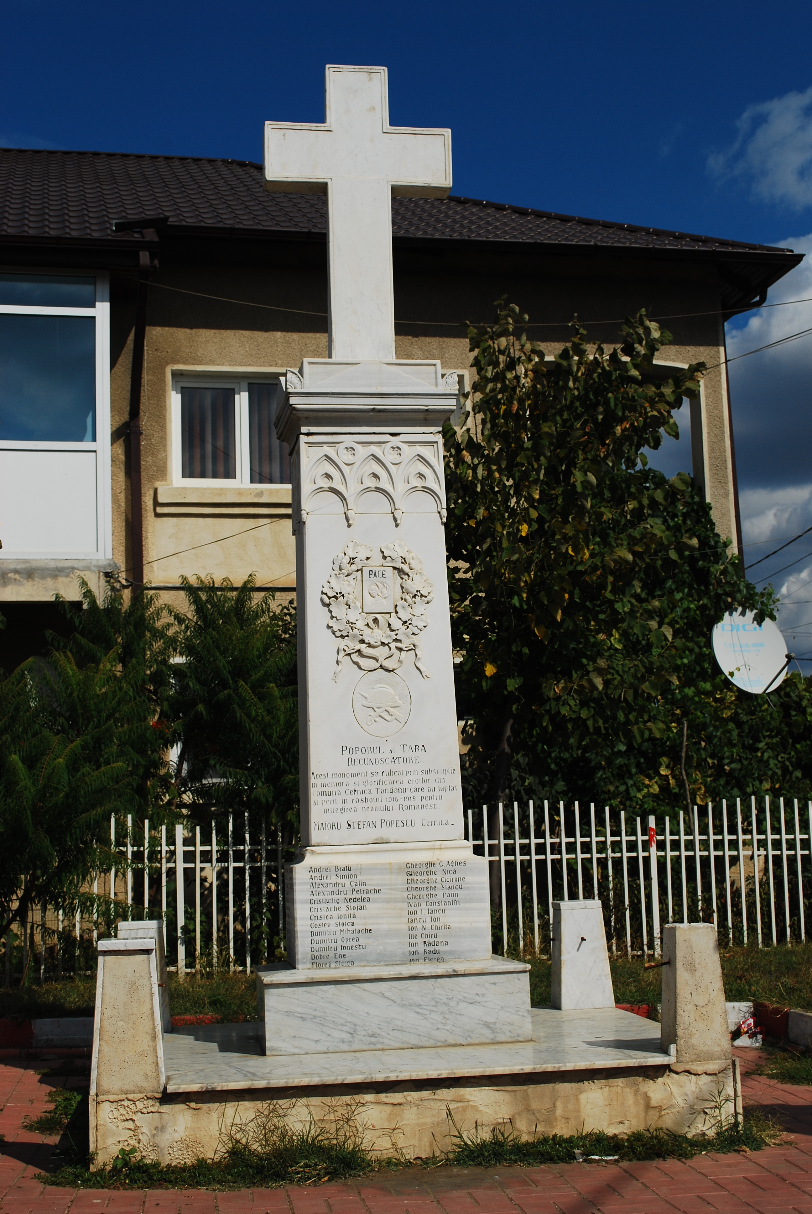 Memorial cross to the heroes of World War I in Cernica, Ilfov County, Romania